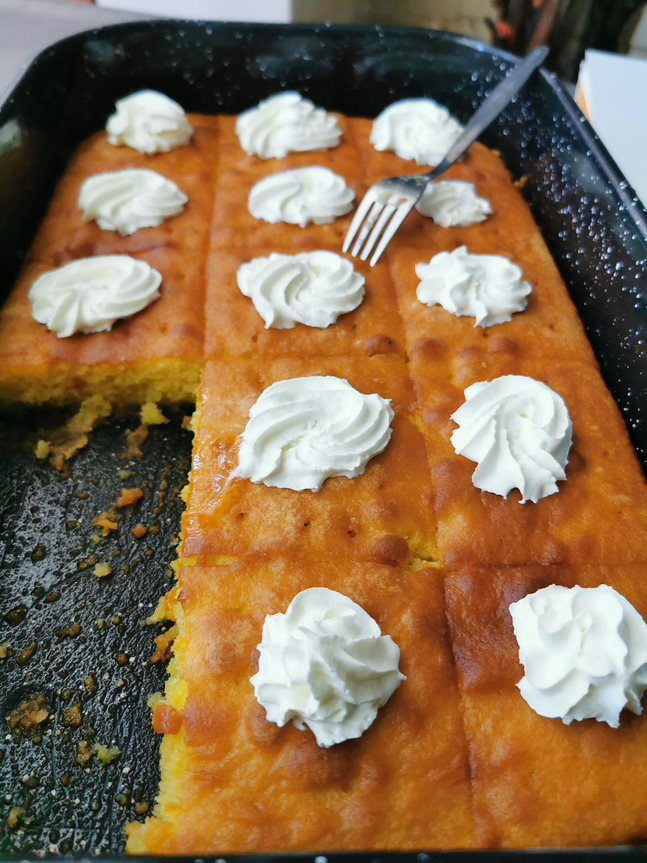 Revani (also namoura, basbousa, hareseh and other names) is a traditional Middle Eastern sweet cake that originated in Egypt, though also popular in other countries. It is made from a semolina batter in a pan, sweetened with orange flower water, rose water or simple syrup, and typically cut into diamond shapes